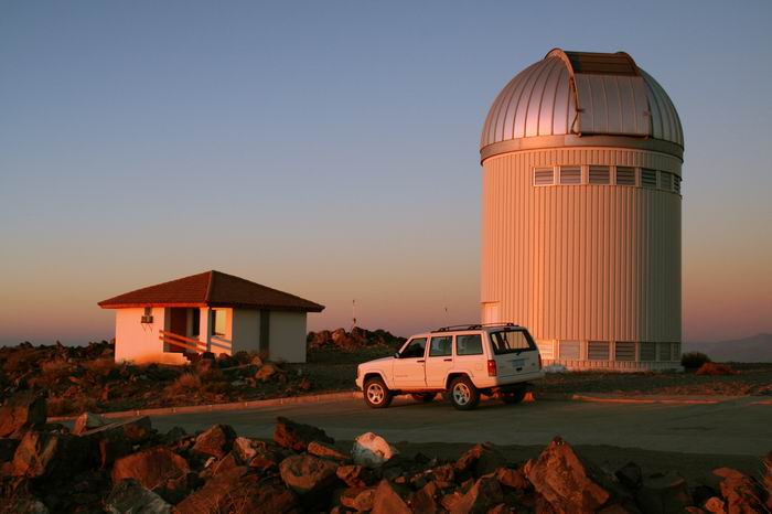 The Polish 1.3m telescope in Las Campanas Observatory in Chile.